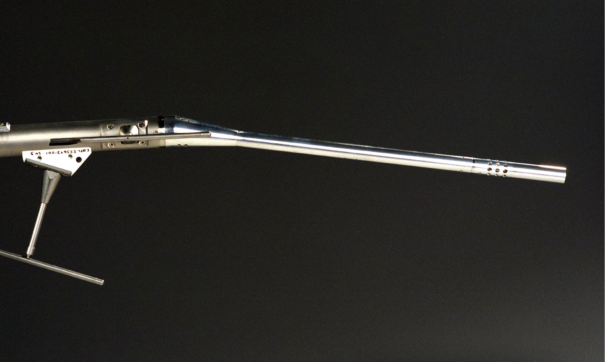 A photograph of the noseboom on the X-31 shows the Kiel air data probe angled at 10 degrees to better align the tip with the airflow at very high angles of attack. The devices were mounted on the nose of the X-31s to measure air pressure. Icing in the unheated Kiel probe on the first X-31 (Bu. No. 164584), caused that aircraft to crash on January 19, 1995. The aircraft obtained data that may apply to the design and development of highly-maneuverable aircraft of the future. Each had a three-axis thrust-vectoring system, coupled with advanced flight controls, to allow it to maneuver tightly at very high angles of attack.